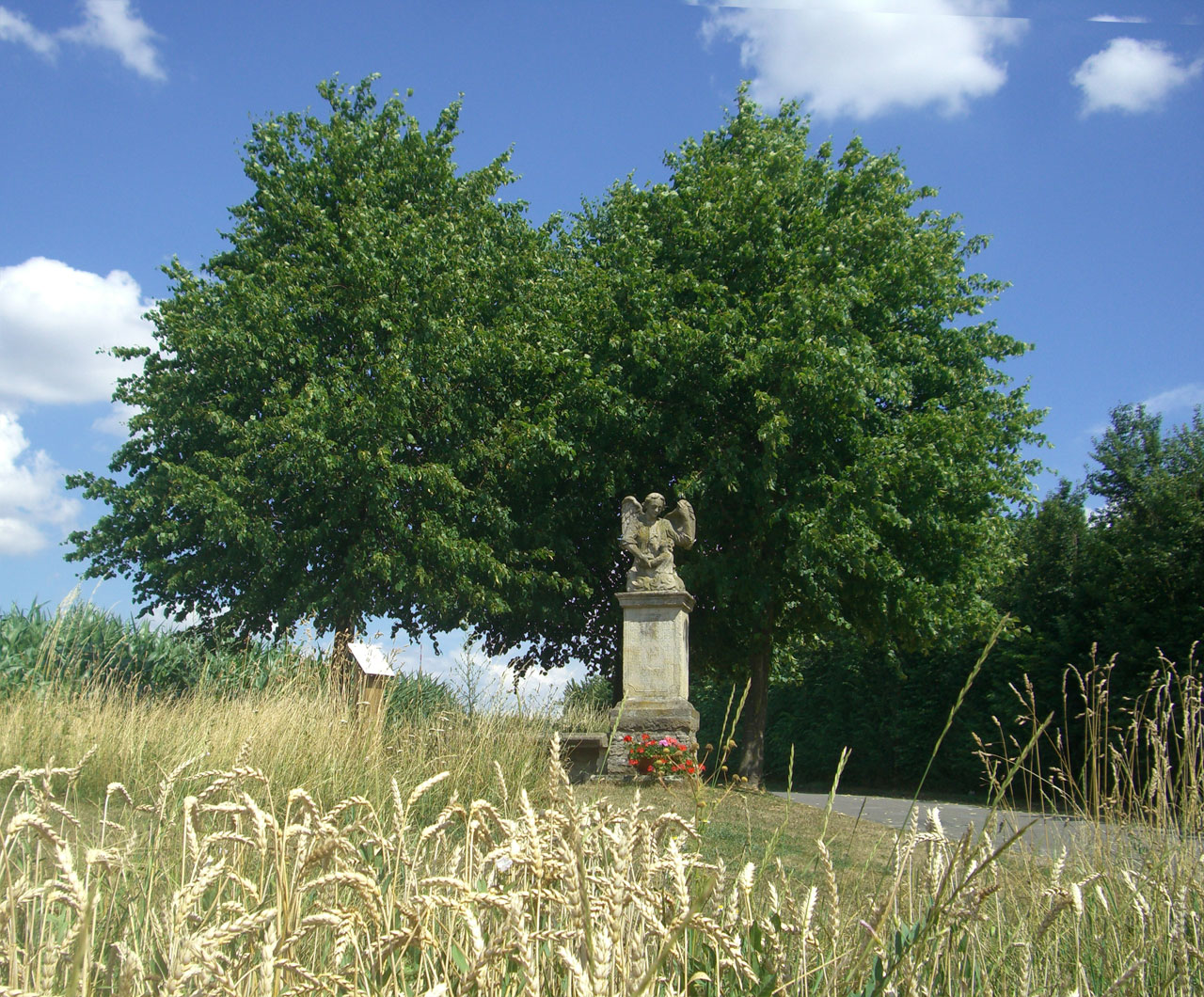 Small guardian angel at Schöppingen